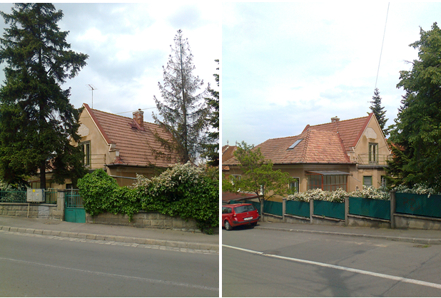 Cluj. House of Jenő Gergely (Hungarian mathematician) betwen 1932-1974.